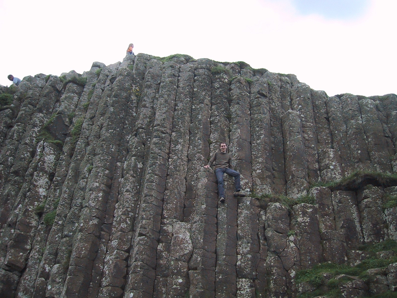 Giant's Causeway